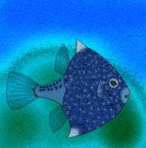 Reconstruction of the extinct aracanid boxfish, Proaracana dubia, of the Lutetian epoch, Eocene Monte Bolca